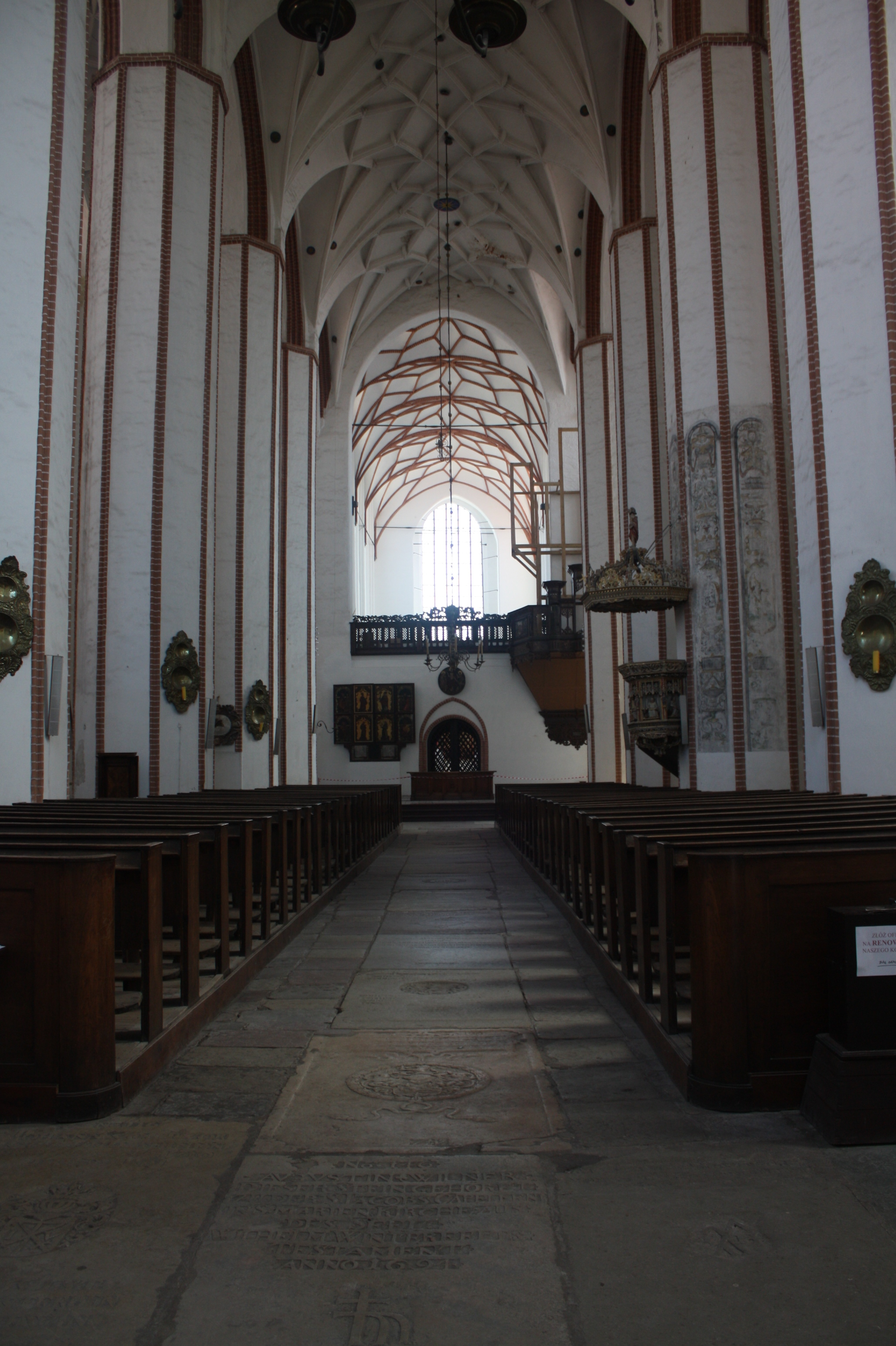 Gdańsk, Church of Saint Trinity